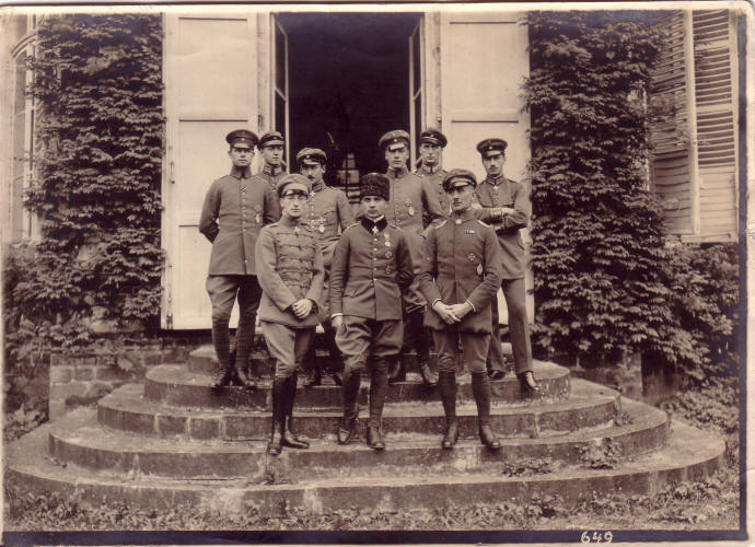 Group foto of Jasta 4 in front of Vaux Castel. Showing Buddecke in the center in his ottoman Uniform with Fes and a total of 5 fighter asses with Pour le Merit